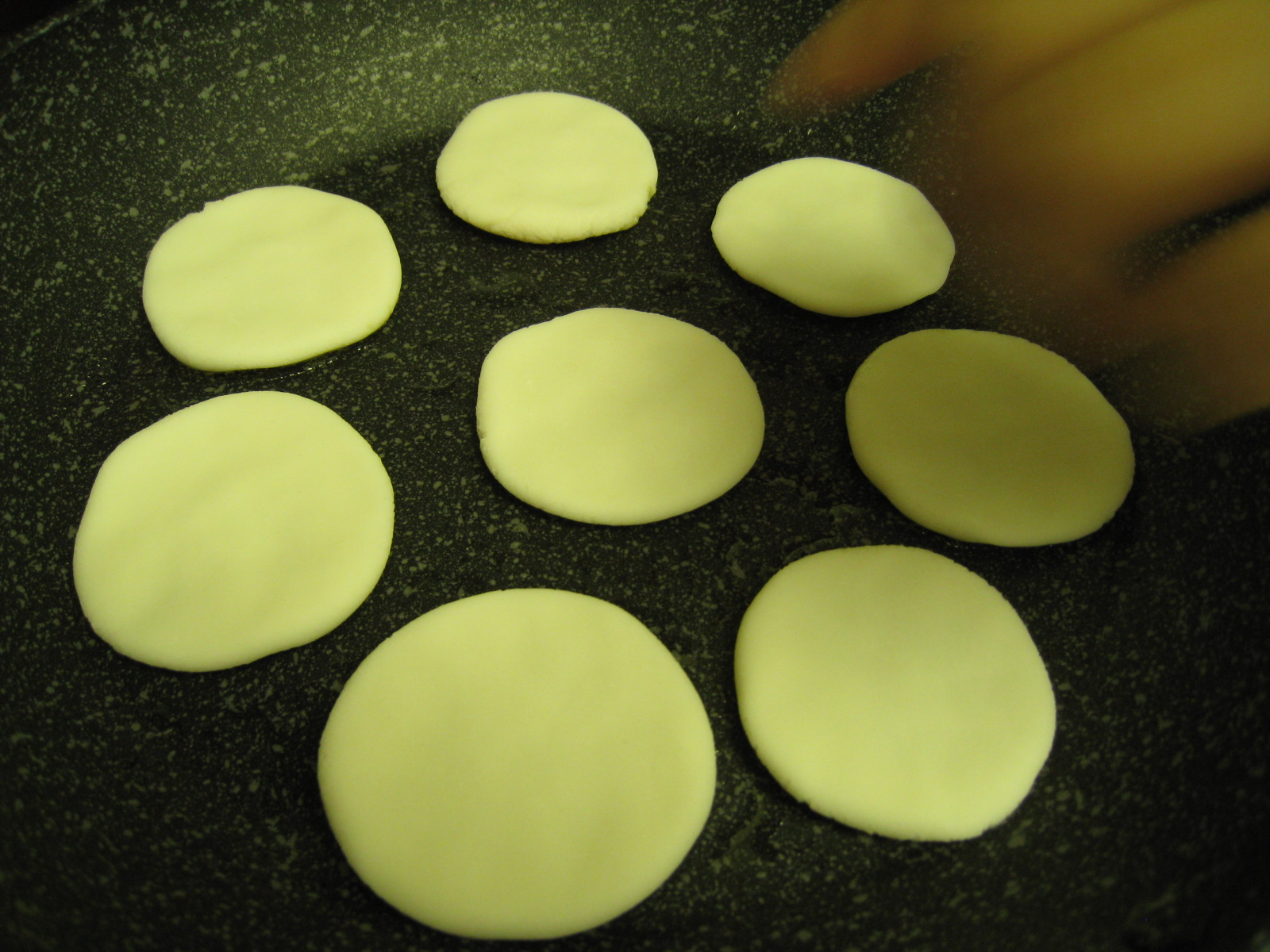 Jindallae hwajeon (진달래 화전, literally azalea pancake) is a variety of jeon, Korean styled pancakes, made with Rhododendron mucronulatum, glutinous rice flour, and sugar. It is made by pan-frying the kneaded dough on a hot frying pan with vegetable oil. It was traditionally eaten on Samjinnal, which falls on every March 3 in the lunar calendar.